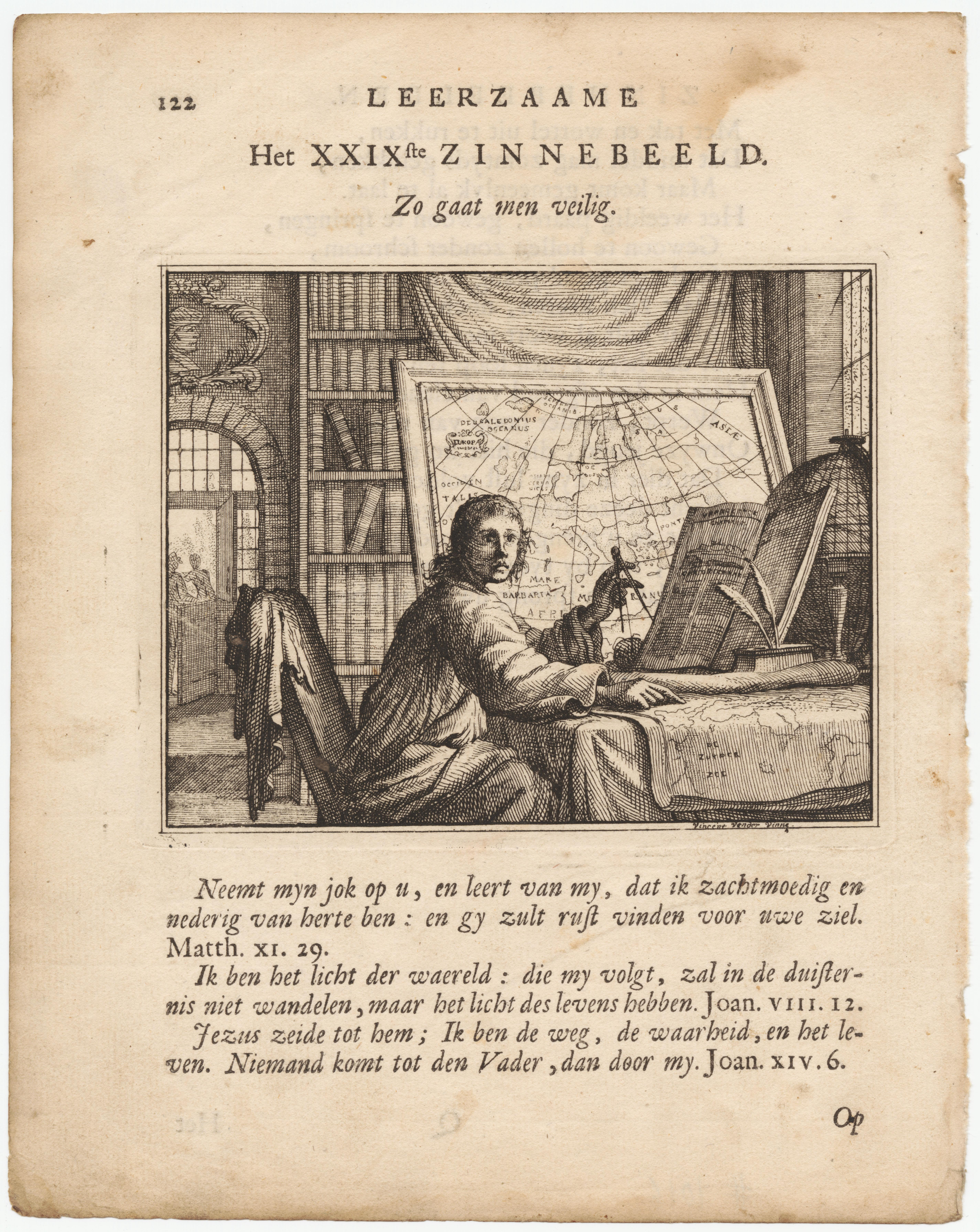 A portrait by Vincent Van der Vinne of a mapmaker looking up intently from his charts.